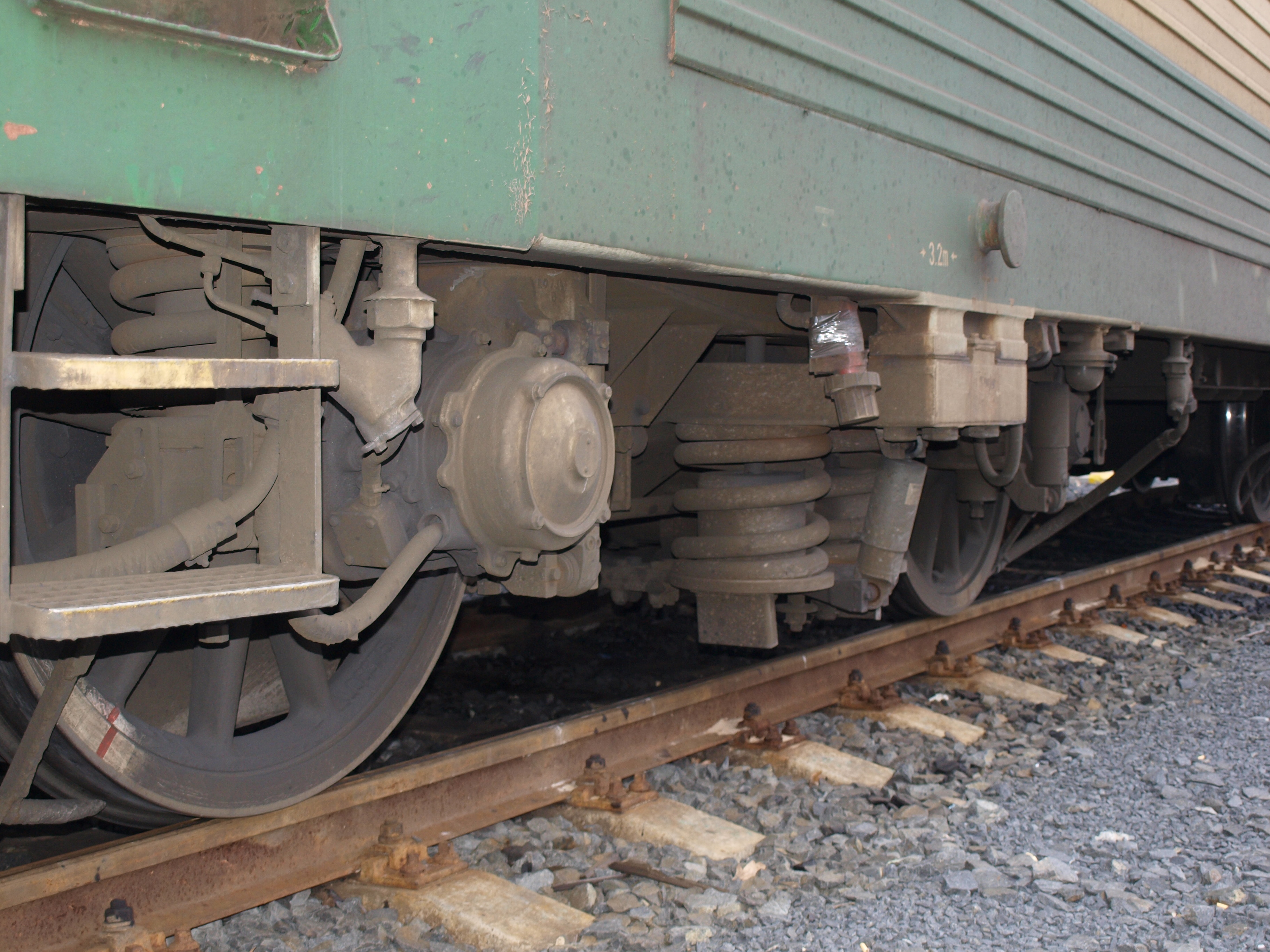 Locomotive 163.242 at Prague main station